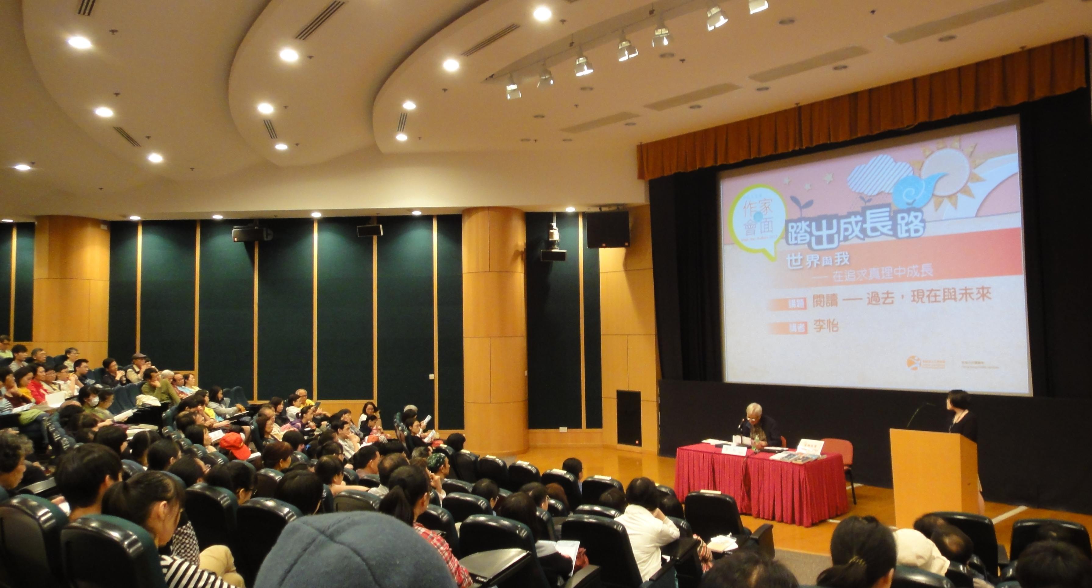 中文（香港）: 李怡@Seminar of the World Reading Day